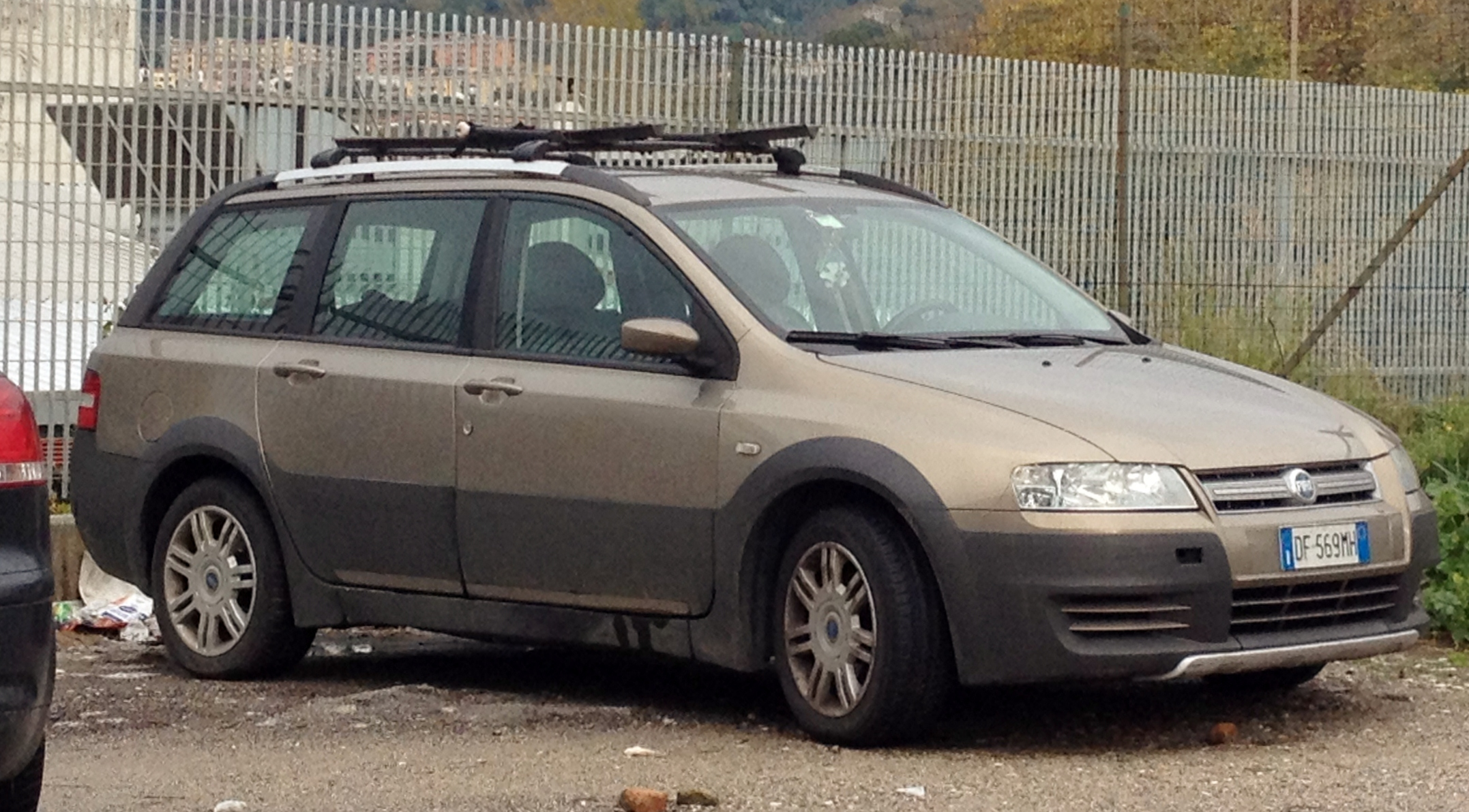 Fiat Stilo Giardinetta, an crossover version of Stilo Multiwagon.